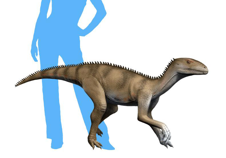 Life reconstruction of Sacisaurus agudoensis